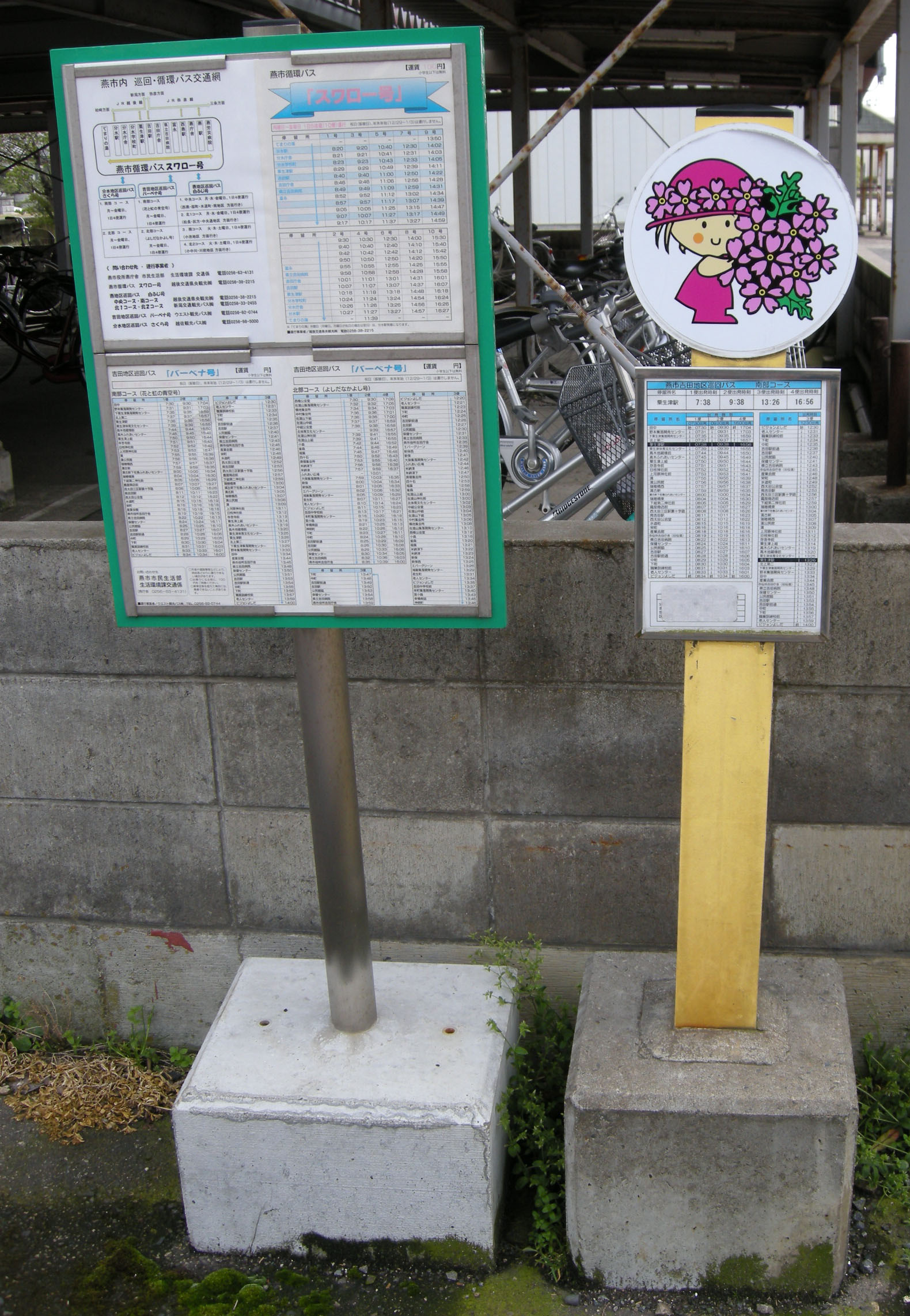 Tsubame City Community Bus Aozu-eki (Aozu Station) Bus Stop